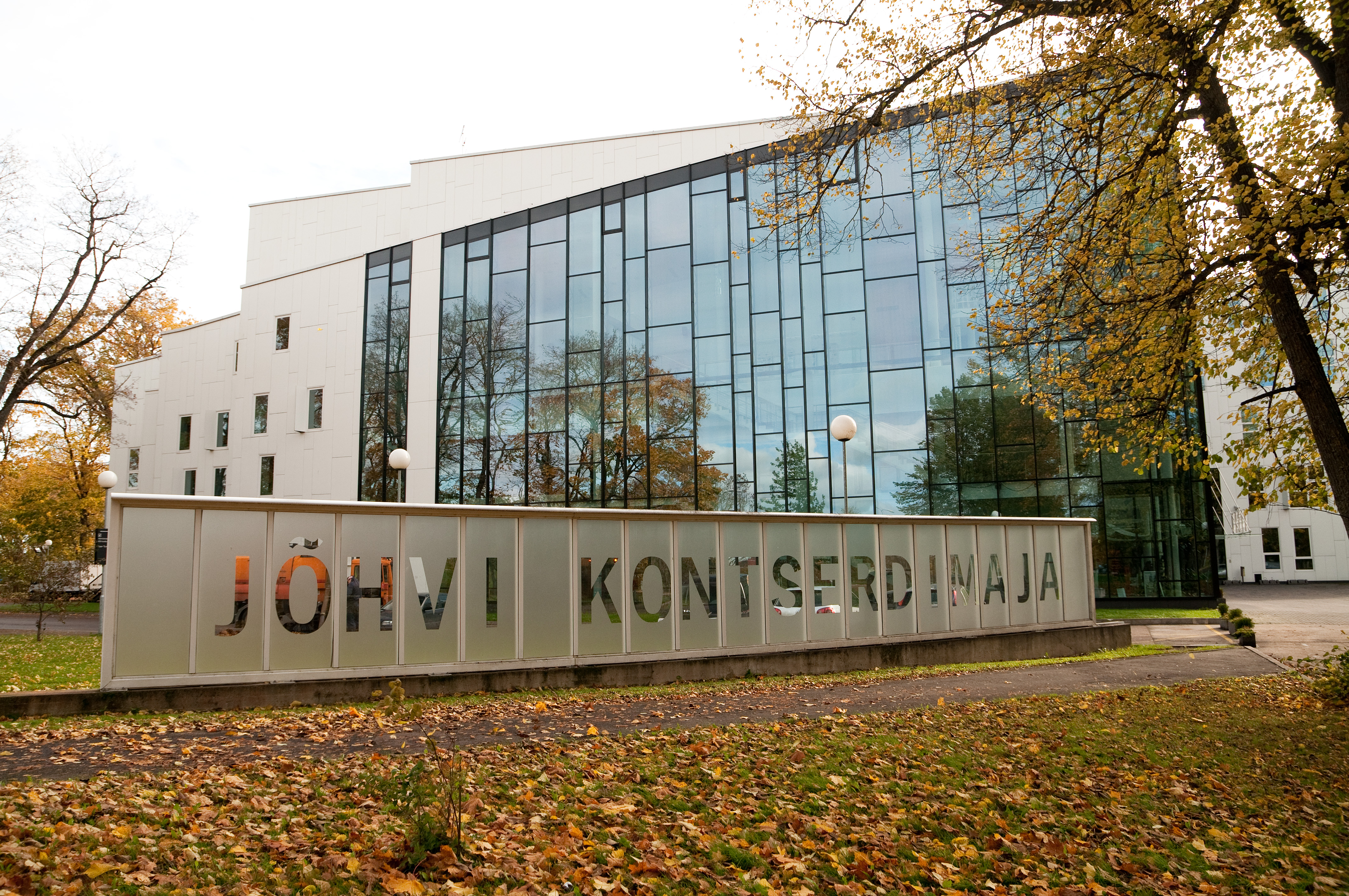 Concert Hall in Jõhvi, Estonia